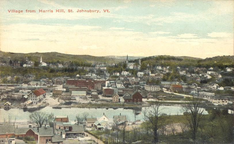 Village from Harris Hill, St. Johnsbury, Vermont